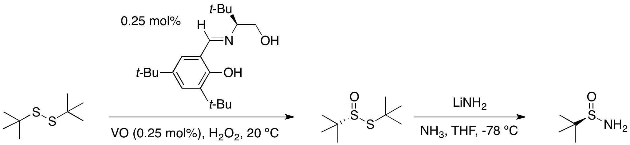 Chemdraw